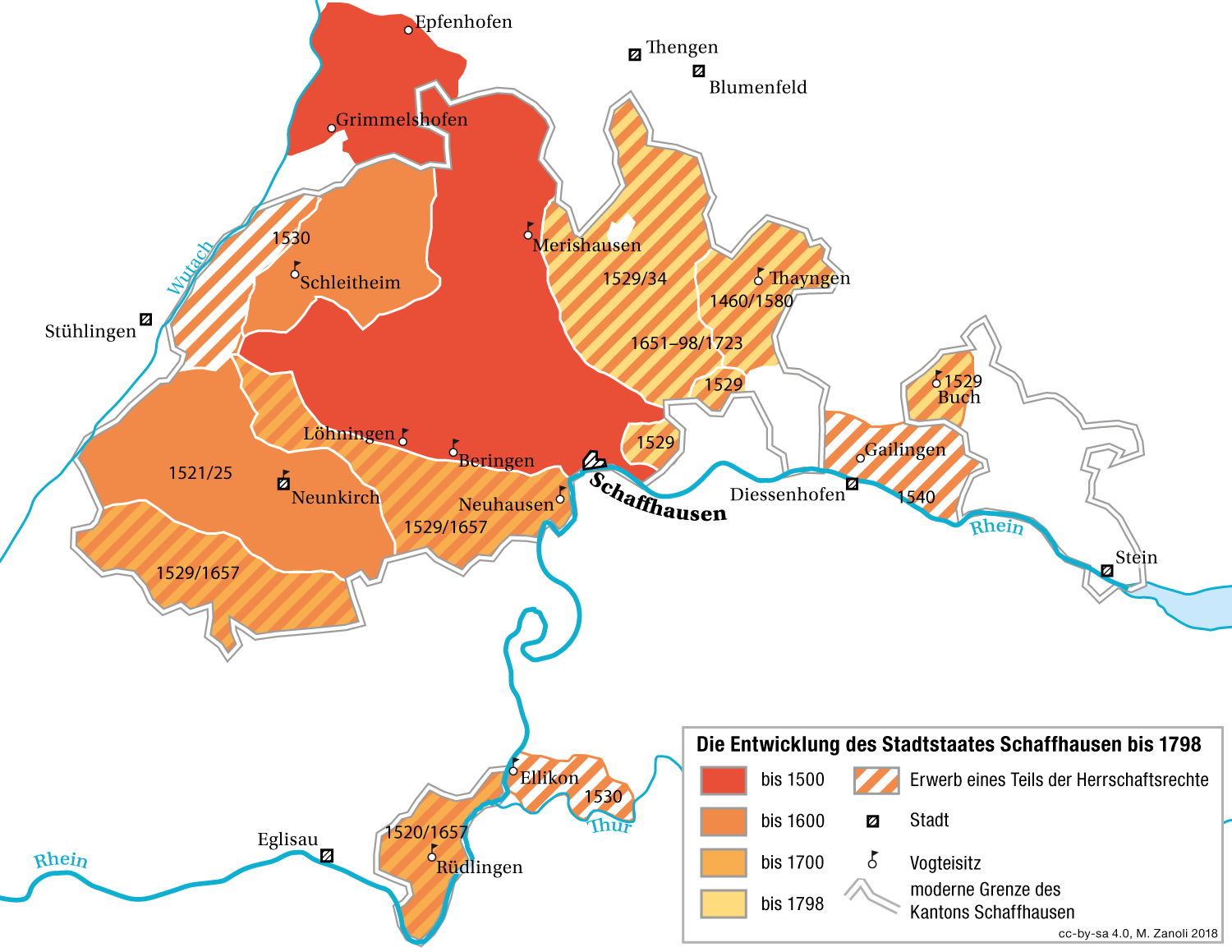 Map of the developement of the territory of the city-state of Schaffhausen until 1798